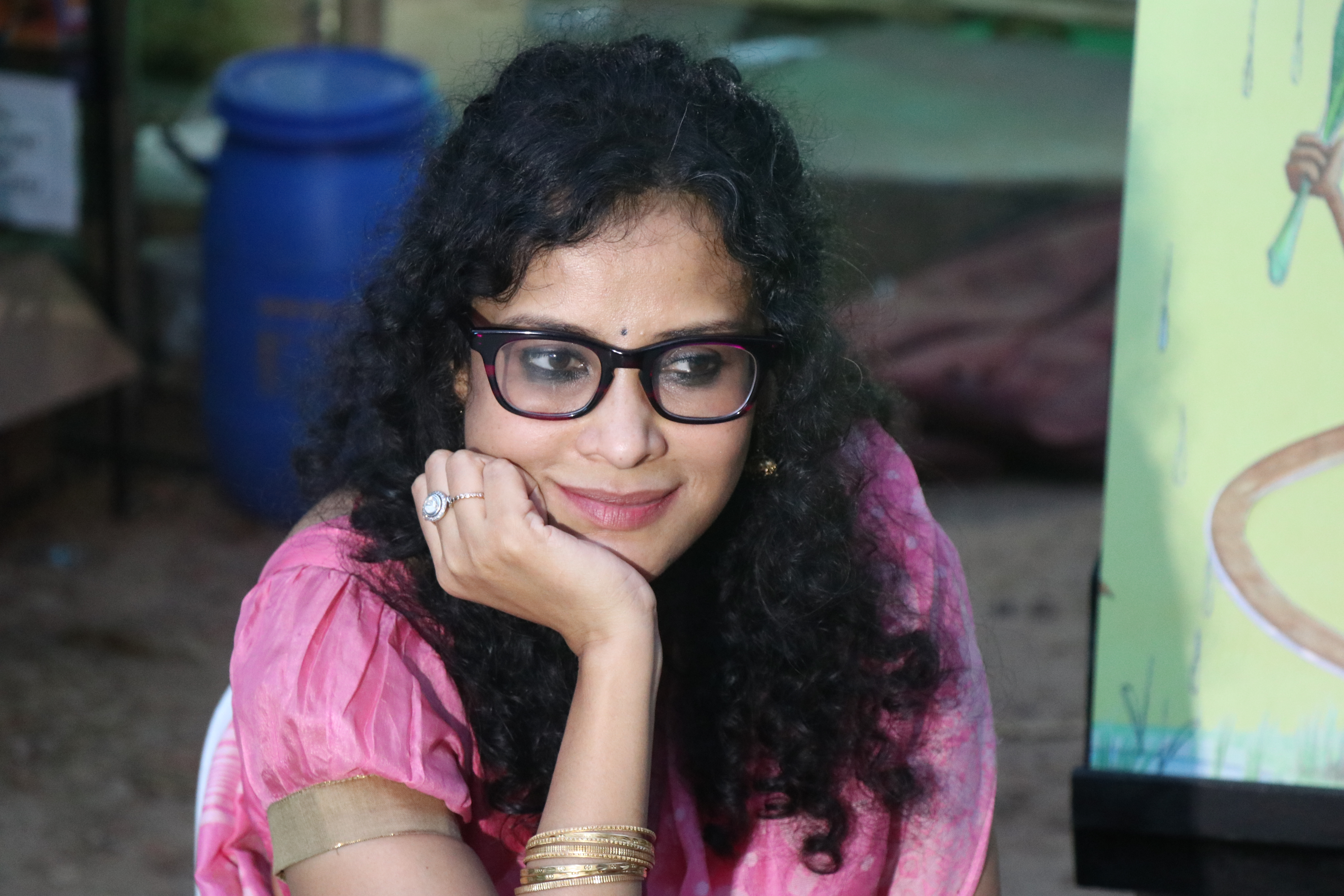 Nandana Sen is an Indian actress, screenwriter, children's author and child-rights activist.